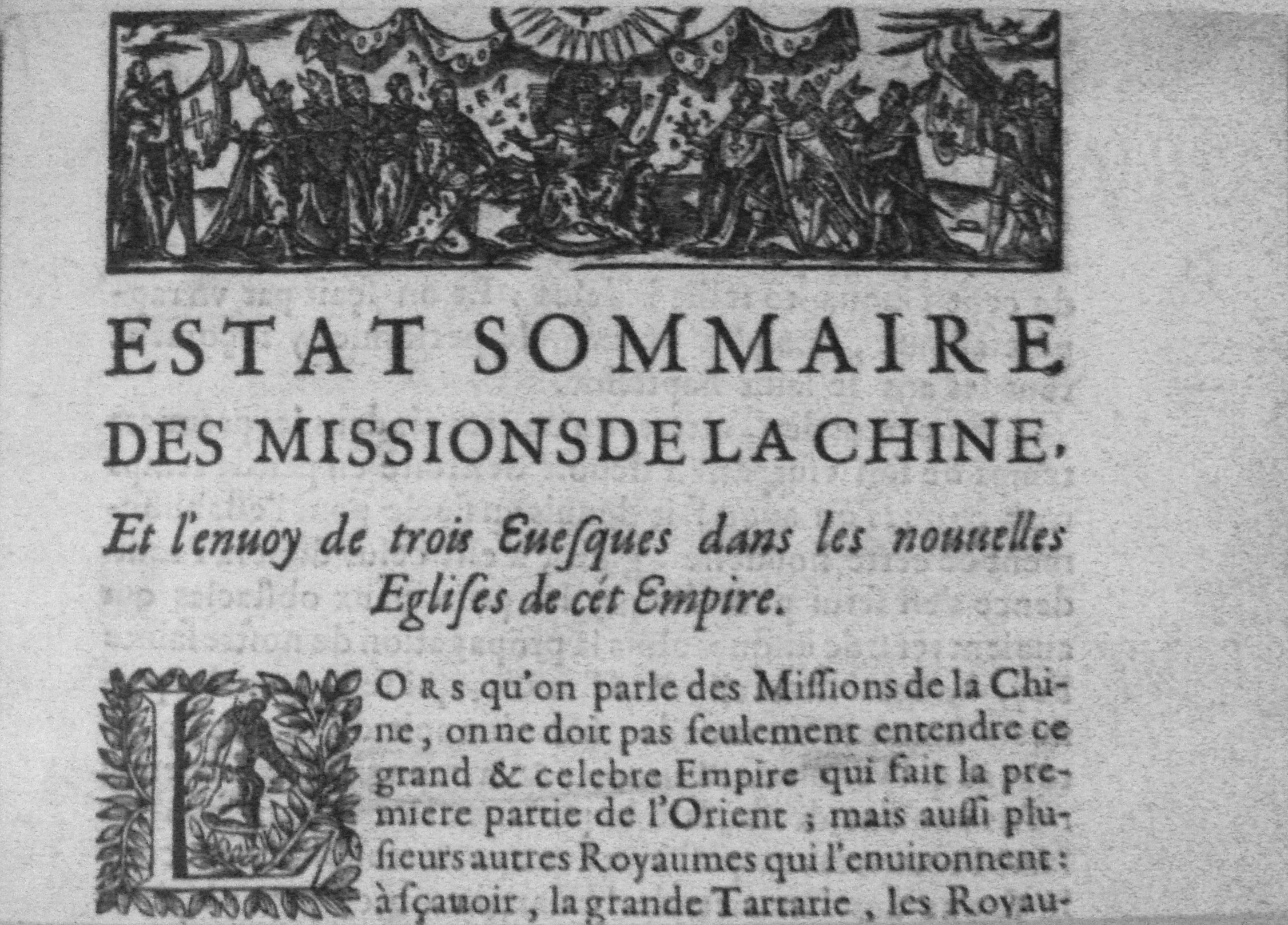 Etat_sommaire_des_missions_de_la_Chine